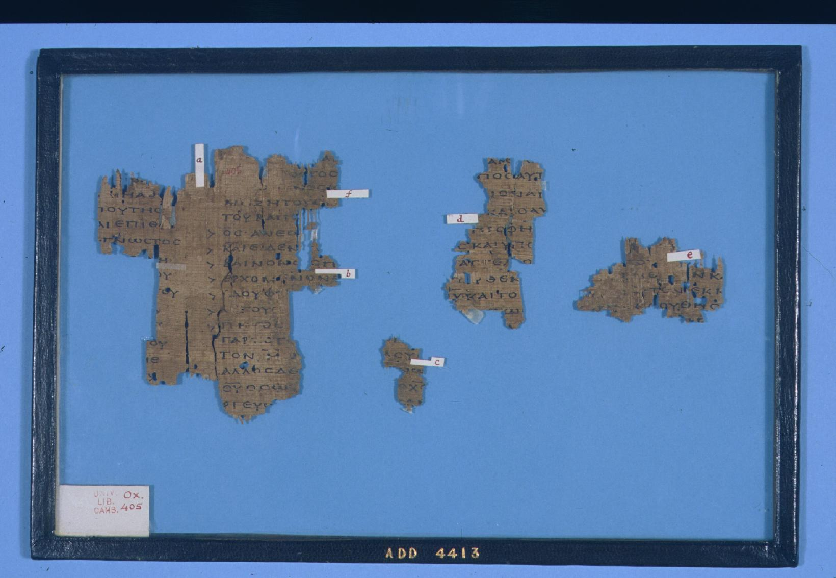 Cambridge University library manuscript 4113 / Papyrus Oxyrhynchus 405. Irenaeus. Ca. 200 AD.